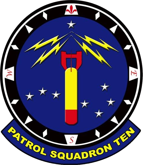 Insignia of Patrol Squadron 10 (VP-10) "Red Lancers" of the United States Navy. It is presumed the insignia was approved for the date of the squadron's establishment on 19 March 1951.